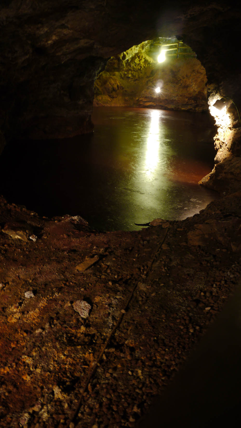 Acid lake in 'Agrupa Vicenta' mine in La Unión (Spain).